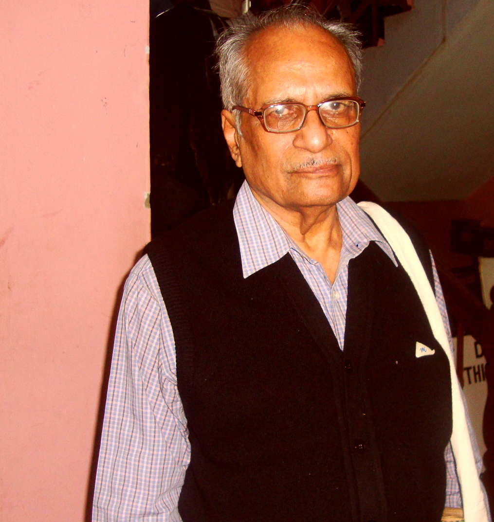 Bibhuti Patnaik Odia Writerଓଡ଼ିଆ: ଖ୍ୟାତନାମା ଓଡ଼ିଆ ଗାଳ୍ପିକ ଓ ଔପନ୍ୟାସିକ